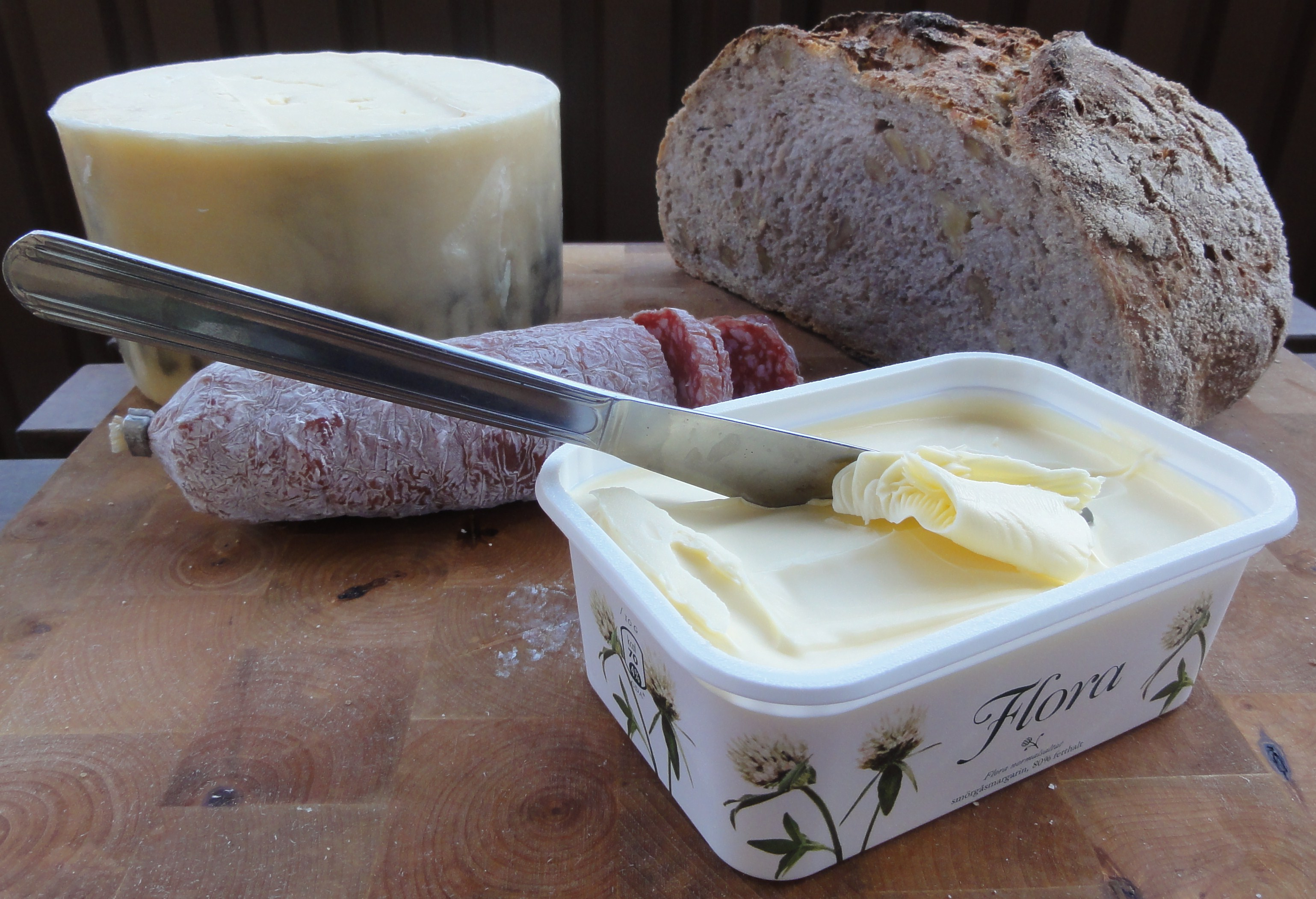 Cheddar cheese, sausage, sour dough bread and butter